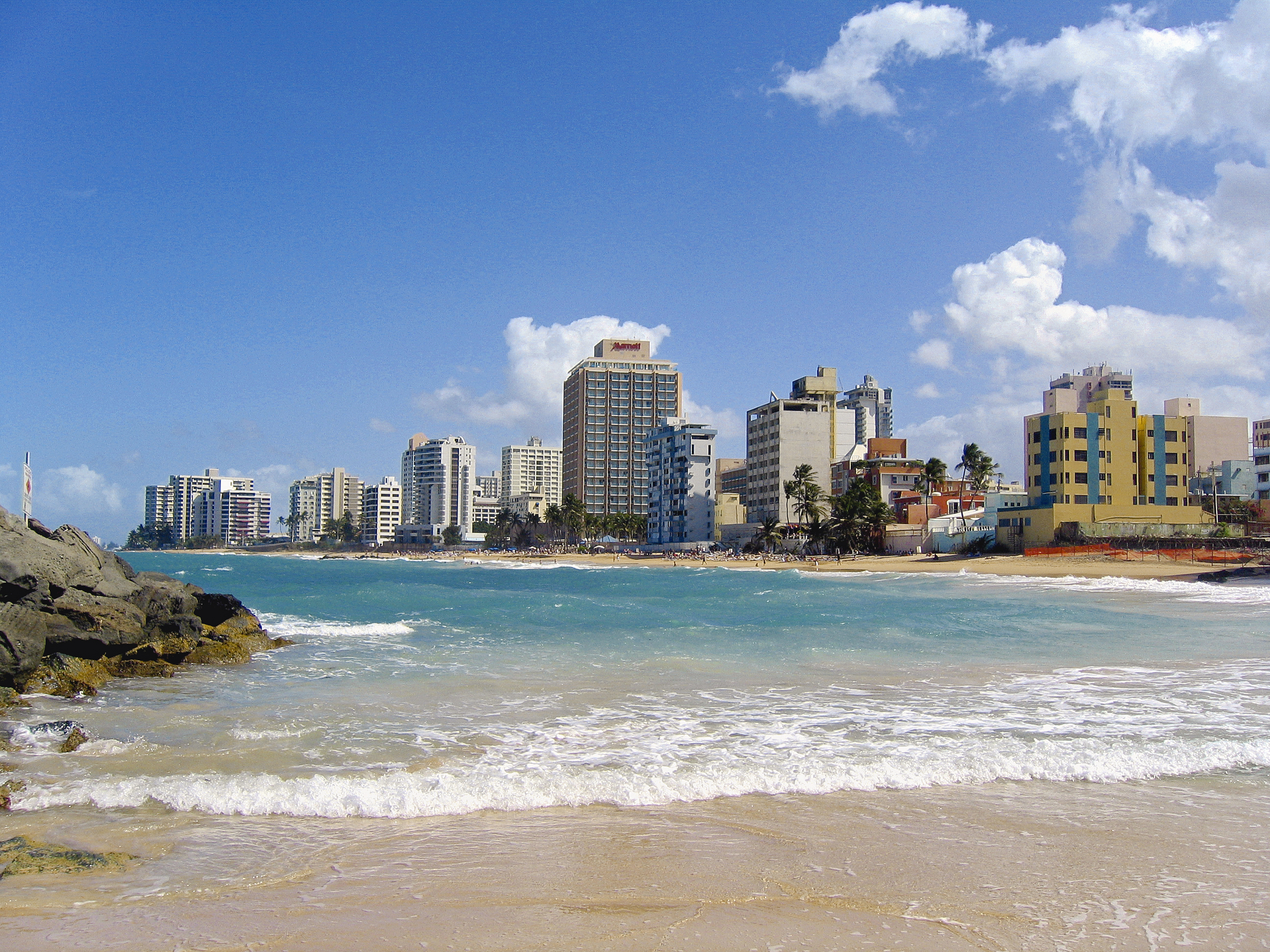 San Juan. Condado beach. Puerto Rico.